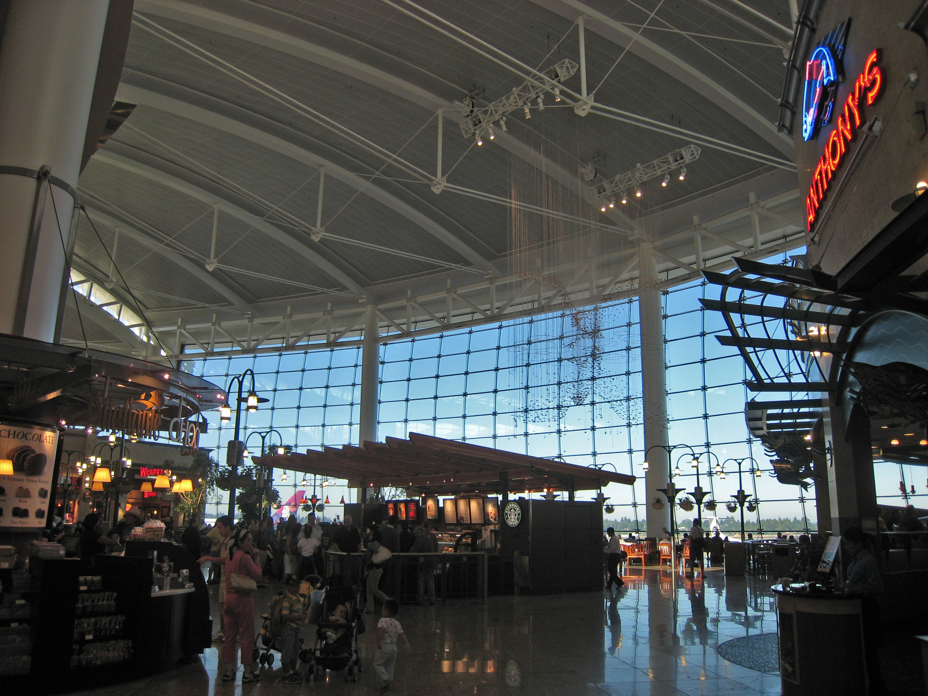 The main Terminal at Seattle-Tacoma (SeaTac) International Airport